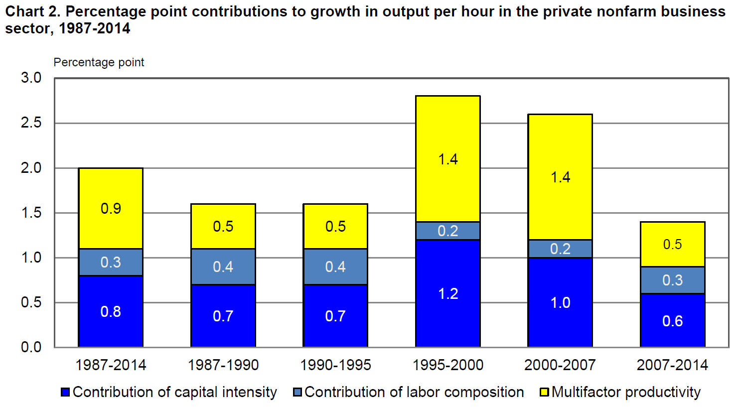 U.S. productivity contributions from labor, capital and multi-factor sources over the 1987-2014 period. Other information The image is in the PDF version of the 6/23/2015 news release